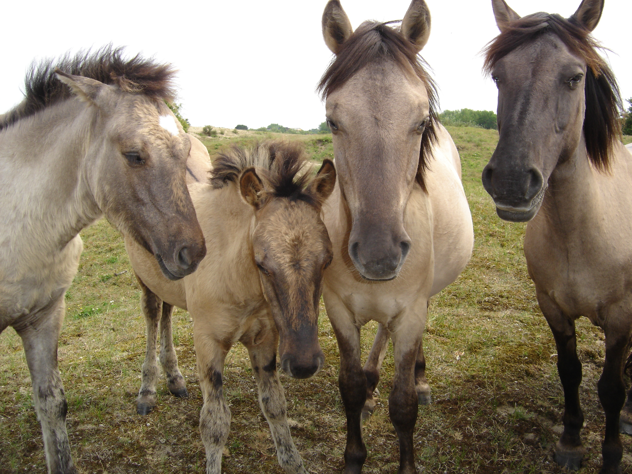 Konik horses in the dunes near Zandvoort, The Netherlands.